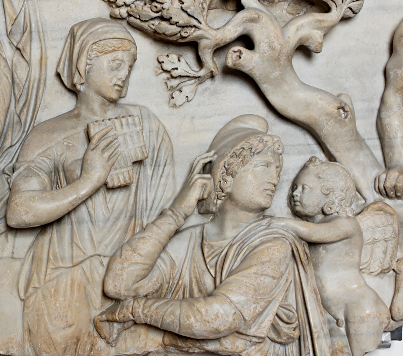 Œnone (Paris' first wife, with a syrinx), Paris (with Phrygian cap) and Eros, detail from the front panel of a sarcophagus. Marble, Roman artwork from the Hadrianic period (117-138 CE), after Hellenistic themes.